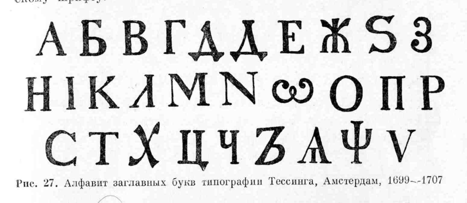 Alphabet of Jan Tessing's printing plant. Amsterdam, 1699-1700. Алфавит букв из типографии Тессинга, Амстердам, 1699-1707.